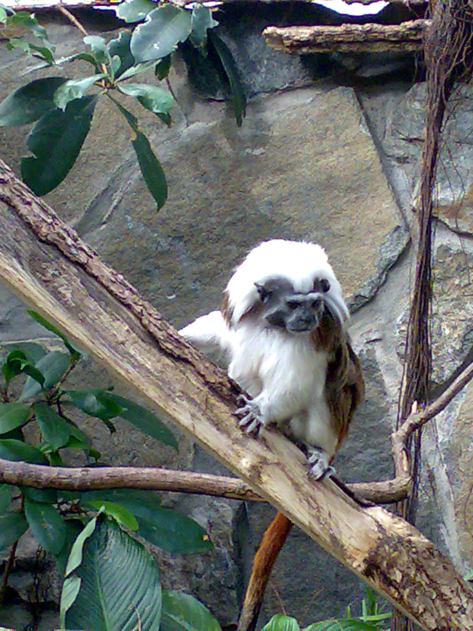 Bomullstopptamarin